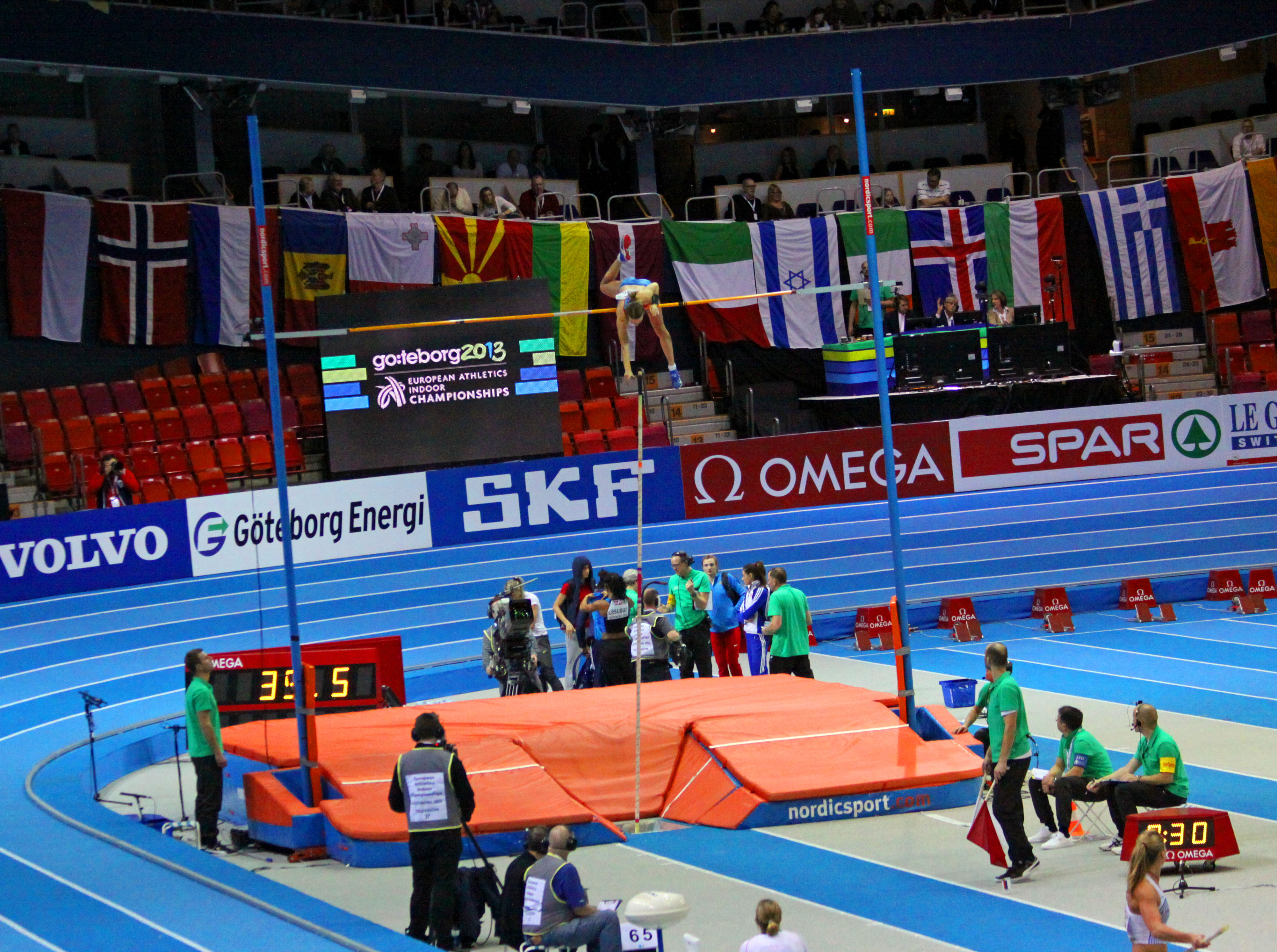 Anzhelika Sidorova pole vaulting at 2013 European Athletics Indoor Championships, Gothenburg. She would be awarded the bronze medal. Göteborg. Anzhelika Sidorova på Friidrotts EM.